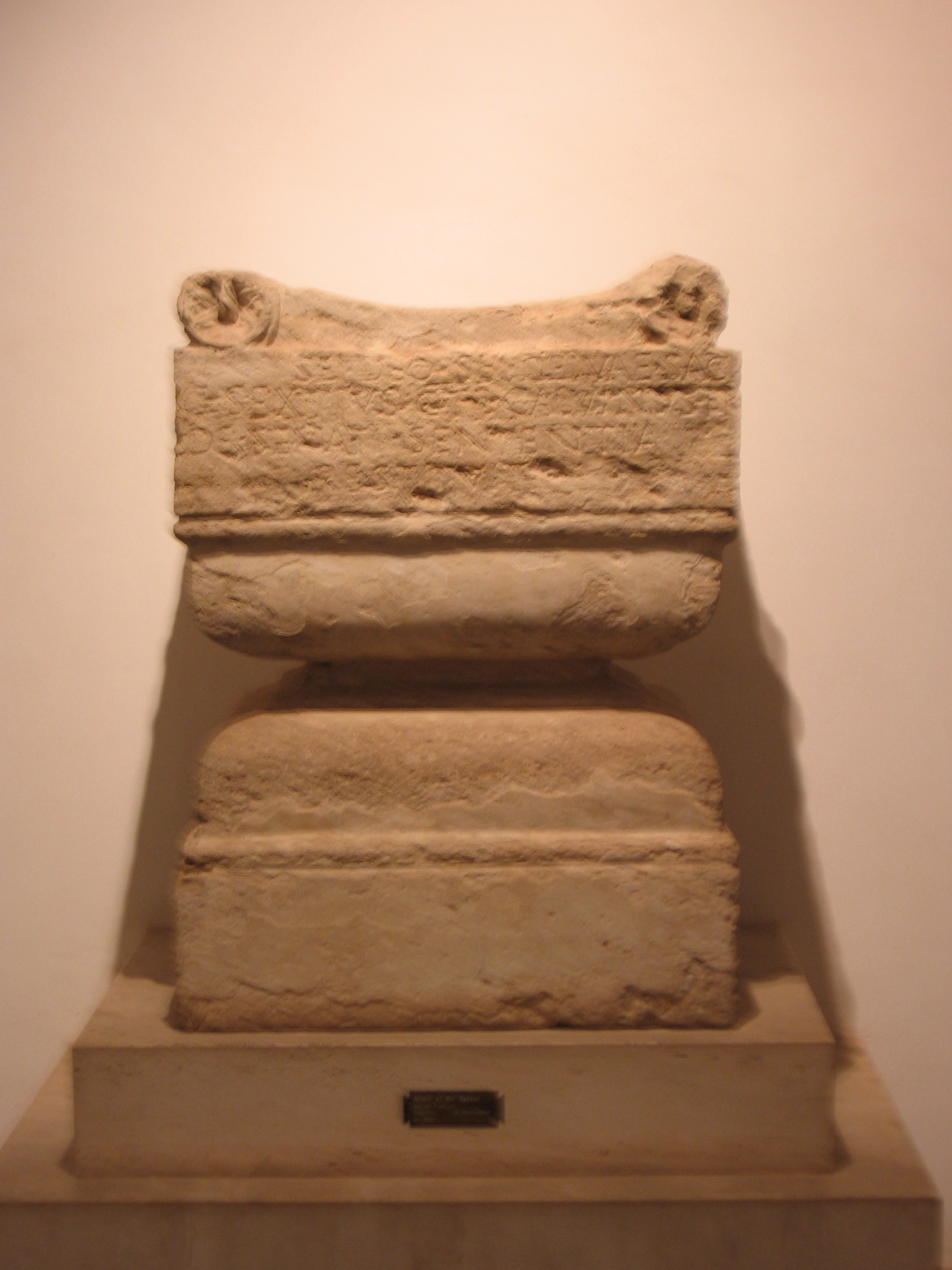 This is not an altar to Aius Locutius, it is an unnamed altar. I took this myself, it is hella blurry, sorry.